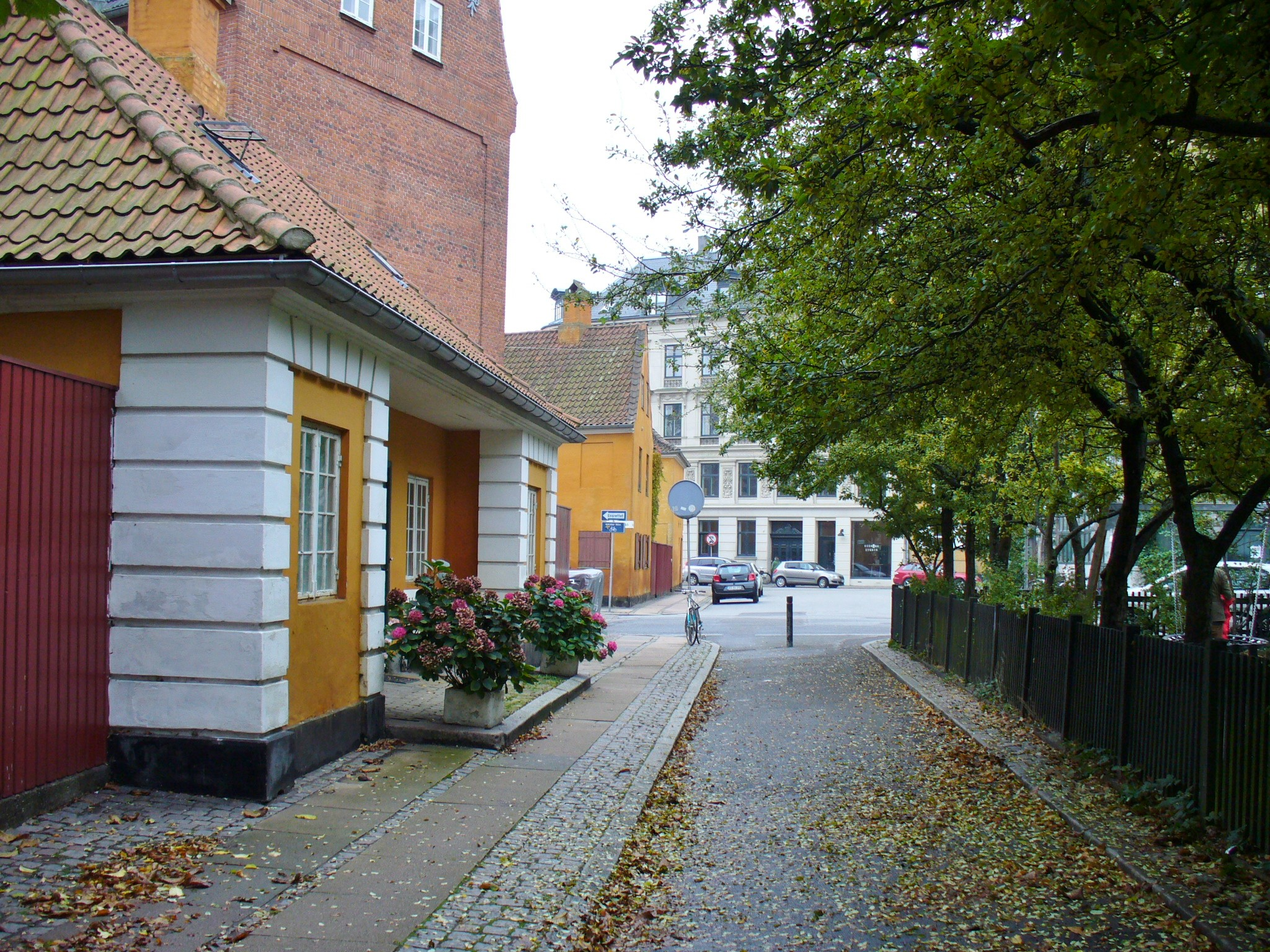 The street Gammelvagt in the area Nyboder in Copenhagen.